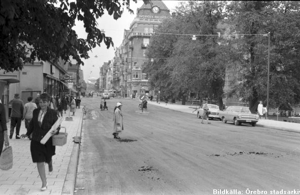 The main street "Storgatan", Örebro, Sweden 1964